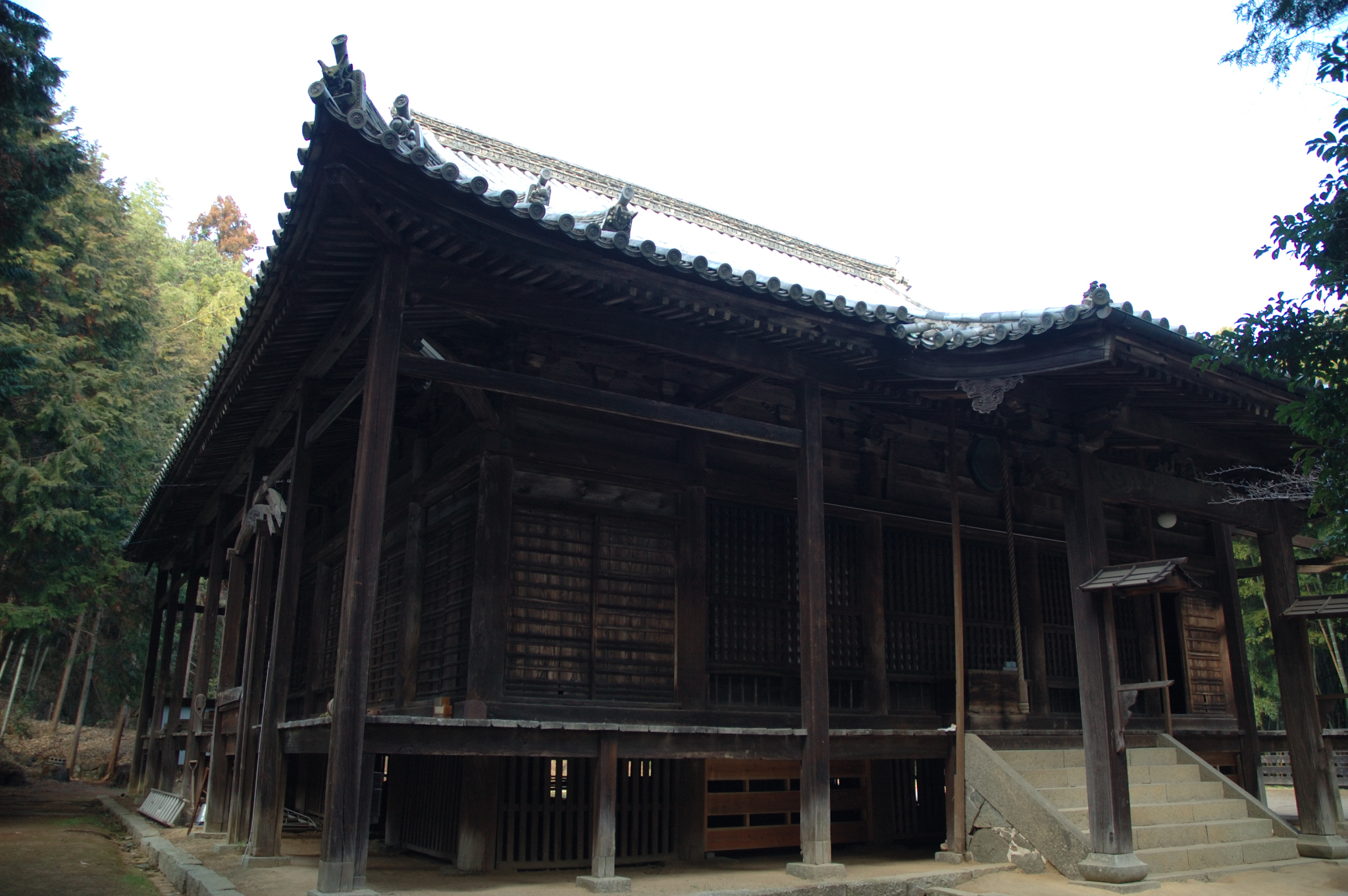 The Main Hall (Hondo) of Kinzan-ji Temple, built ca. 1575. Okayama City, Okayama, Japan(Japan's national important cultural property)